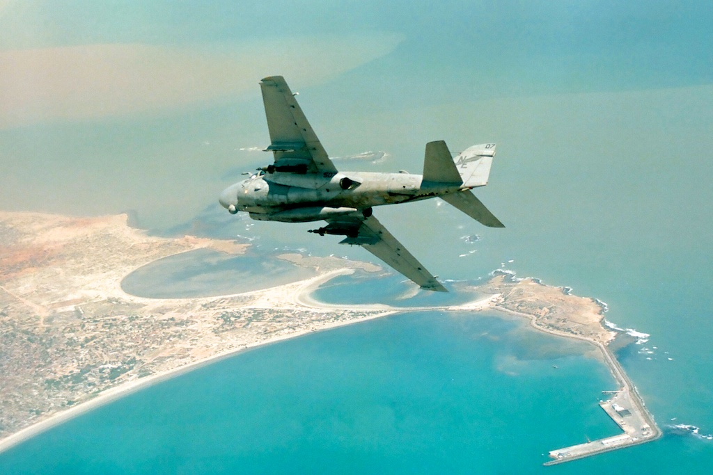 A U.S. Navy Grumman A-6E Intruder (BuNo 155707) from Attack Squadron 145 (VA-145) "Swordsmen" on patrol over Somalia during "Operation Restore Hope", 7 December 1992. VA-145 was assigned to Carrier Air Wing 2 (CVW-2) aboard the aircraft carrier USS Ranger (CV-61) for a deployment to the Western Pacific and the Indian Ocean from 1 August 1992 to 31 January 1993.